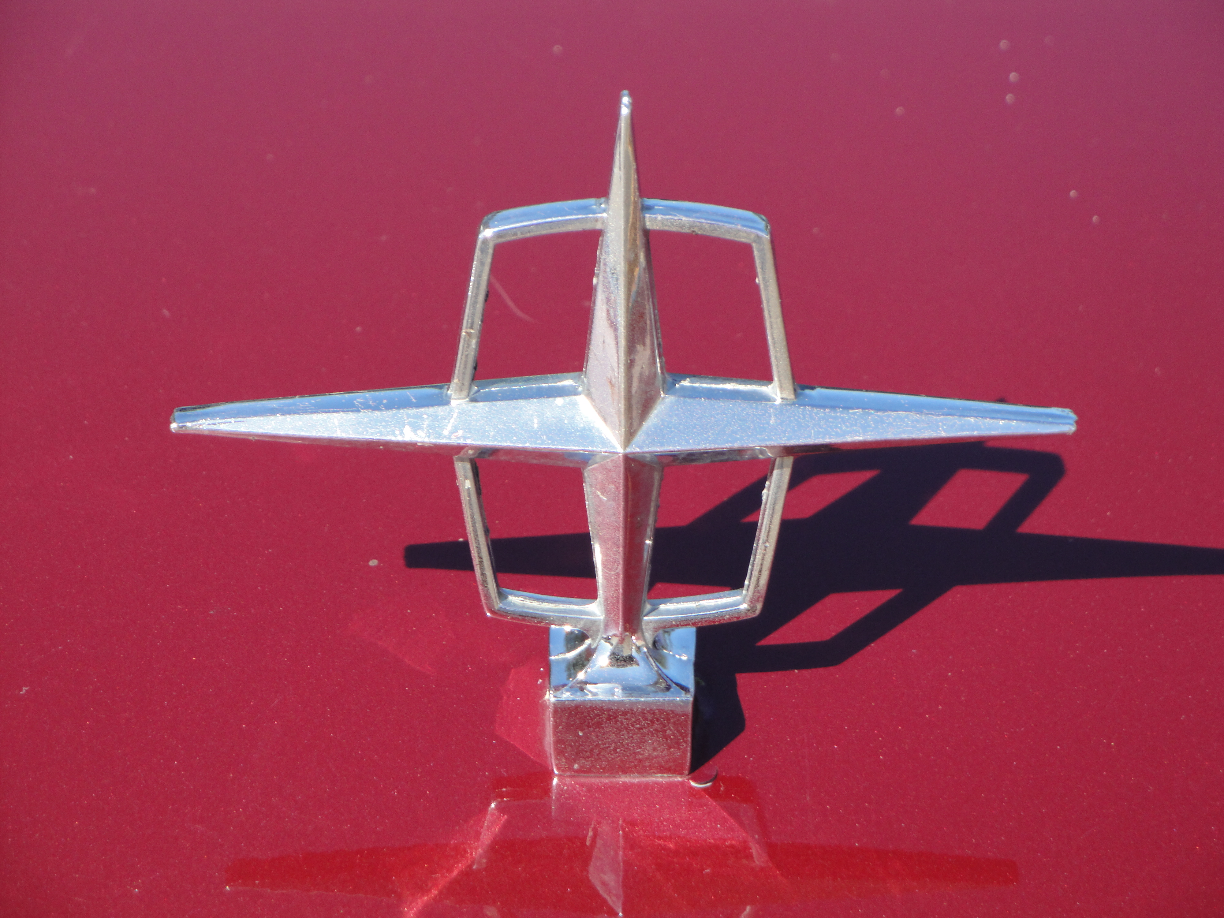 Lincoln and Continental go together like bread & butter, but are all Lincolns Continentals or all Continentals Lincolns. In the comment section below, guess which images are Lincoln Continentals and which are not, click on the images to see if you were correct.